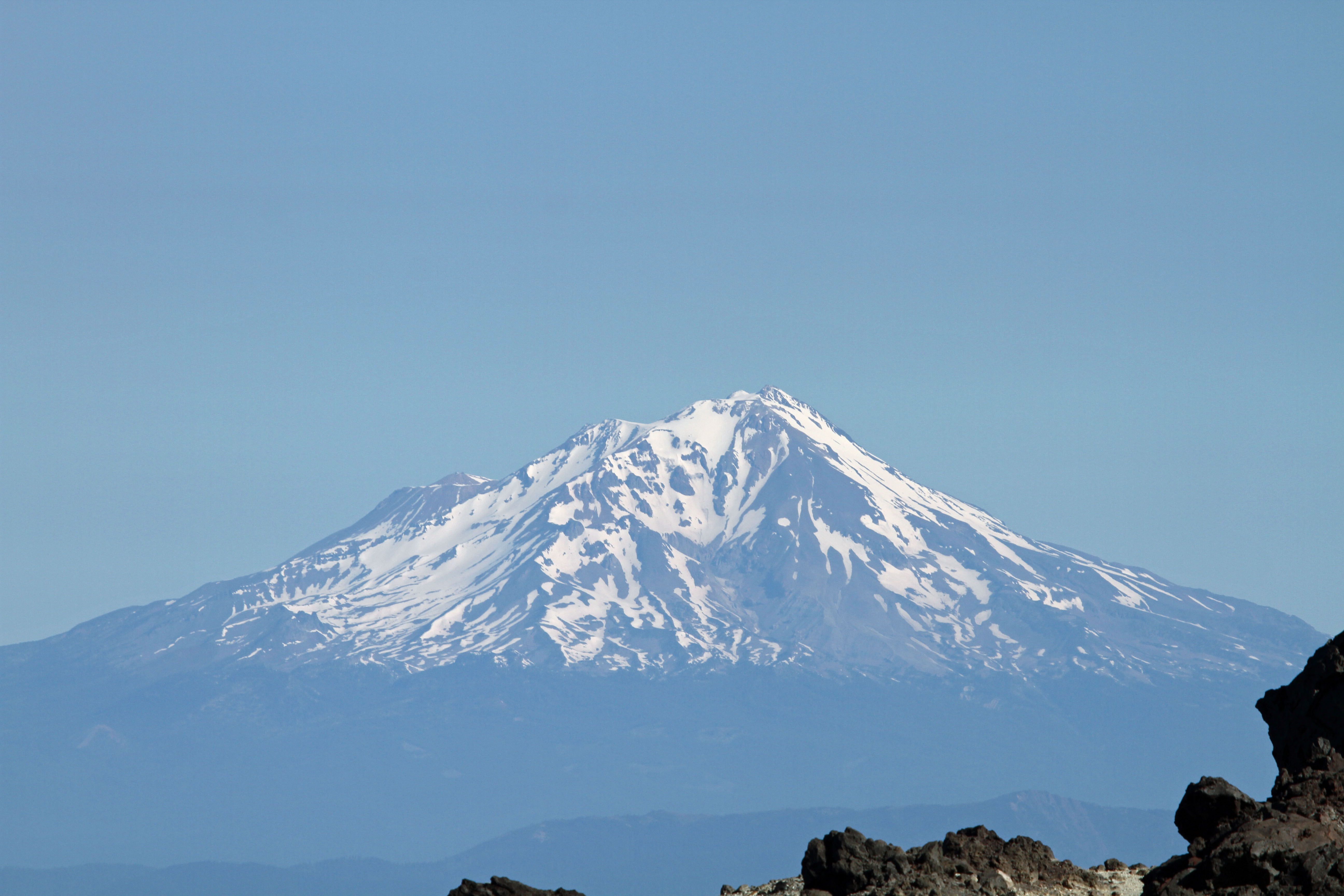 Mt. Shasta